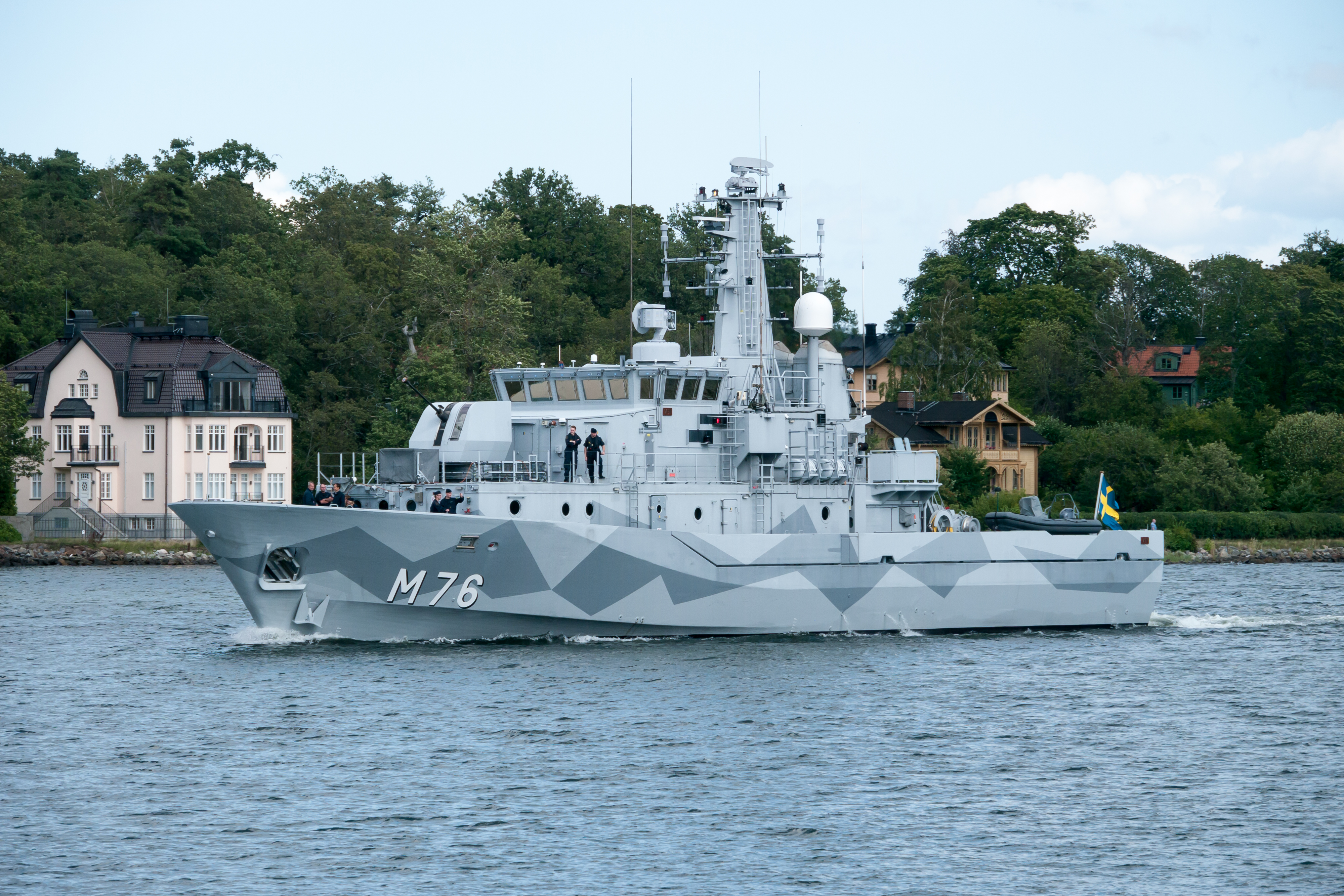 HMS Ven (M76) on Saltsjön in Nacka